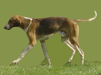 English Foxhound